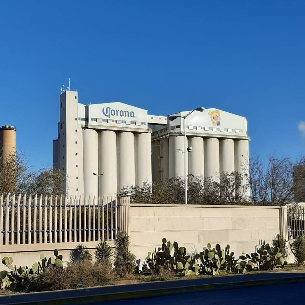 Foto a las afueras de Grupo Modelo, Calera, Zacatecas.